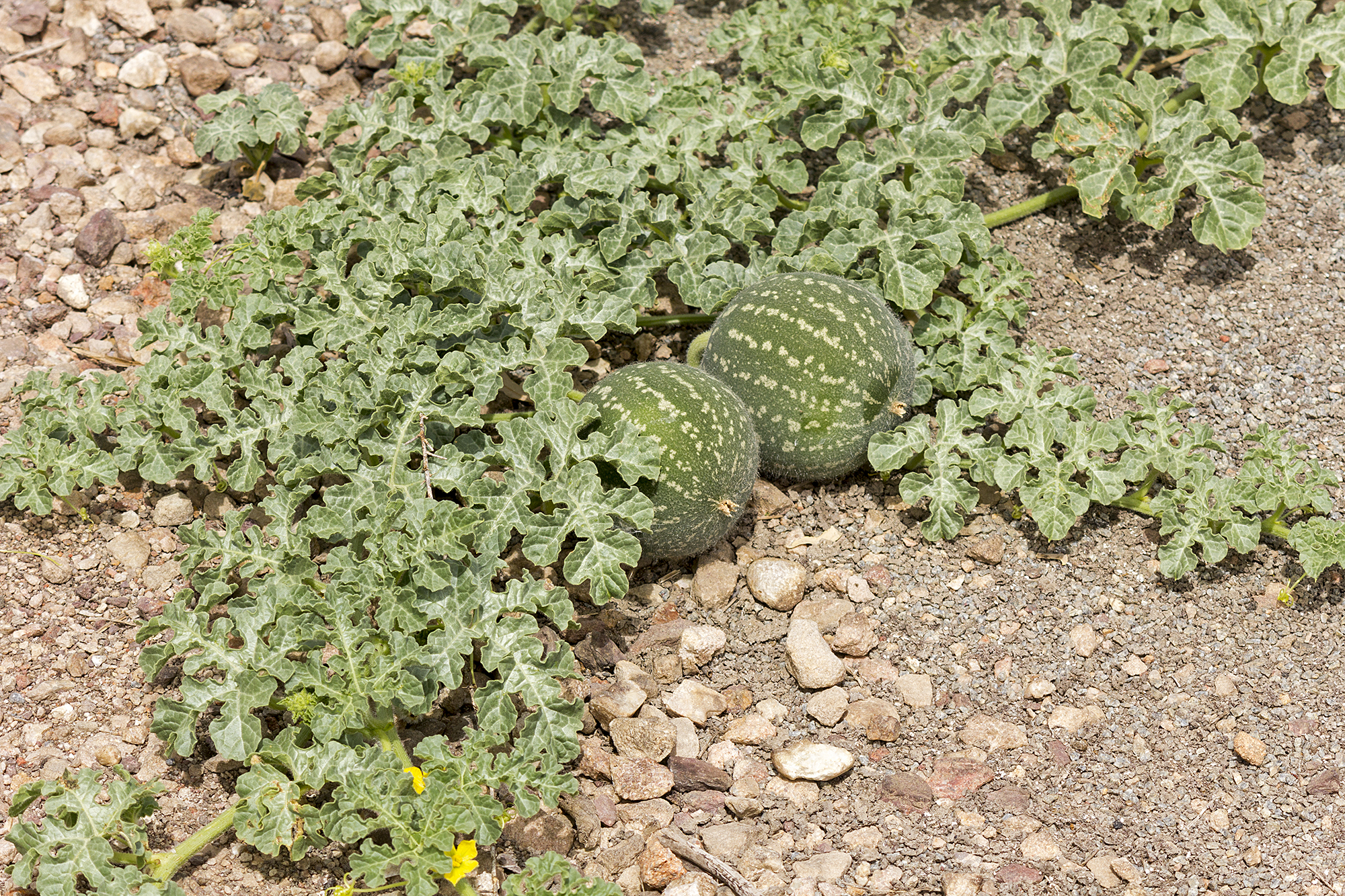 Paddy Melon (Cucumis myriocarpus) at Fivebough Wetlands